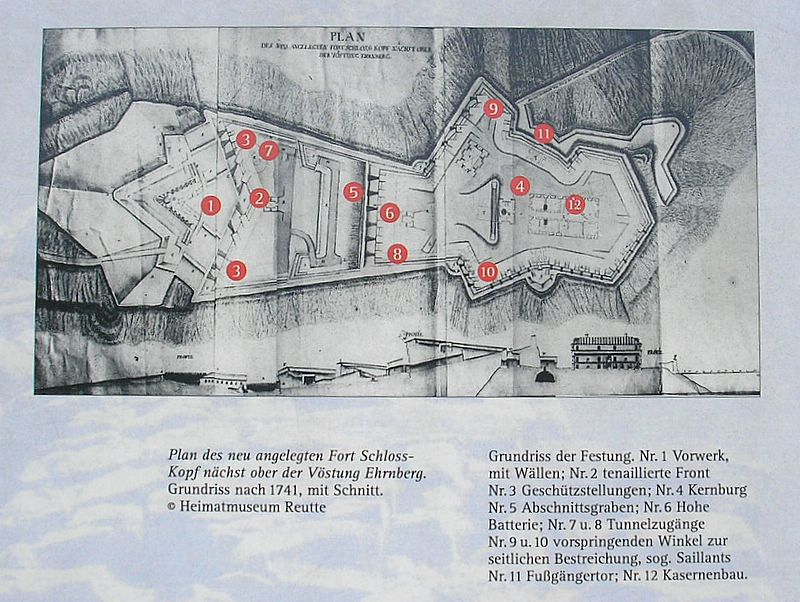 Fortress Schlosskopf near Reutte in Tirol (Austria). Floor plan (Information board at the fortress).